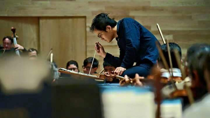 Orquesta Sinfonica de Xalapa